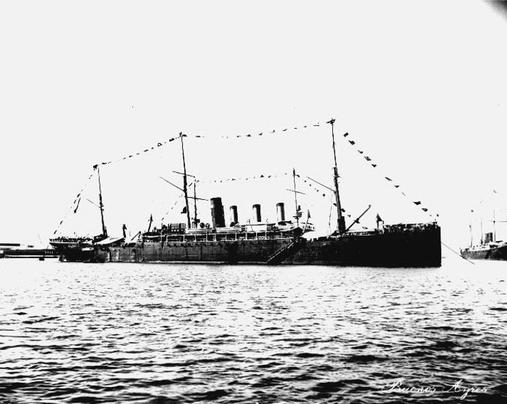 Spanish transport Buenos Aires at Port Said in late June 1898.